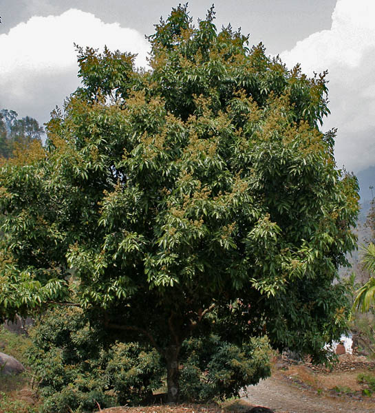 Lychee Litchi chinensis at Samsing in Darjeeling district of West Bengal, India.